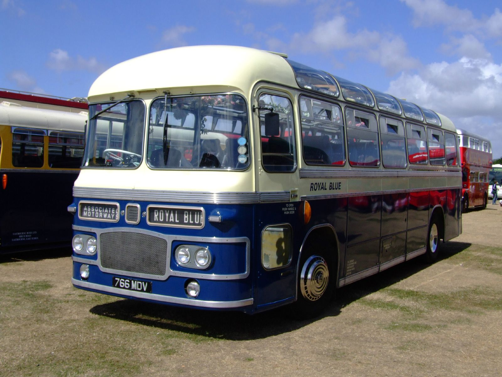 A preserved Royal Blue Coach Services coach, No. 2278 (reg. 766 MDV), a 1963 Bristol MW6G with Eastern Coach Works bodywork. Pictured at the 2006 Worthing Bus Rally in West Sussex, England.